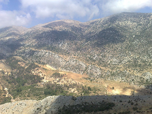 This is the town of Niha, in the caza of Chouf, Lebanon